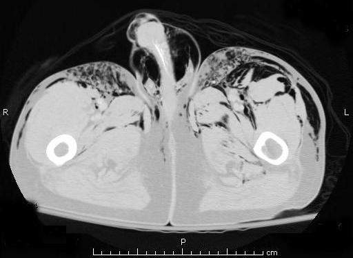 Modified version of Image:Subcutaneous_emphysema_pelvis.jpg, a CT scan of a patient with severe subcutaneous emphysema. Pelvic CT.